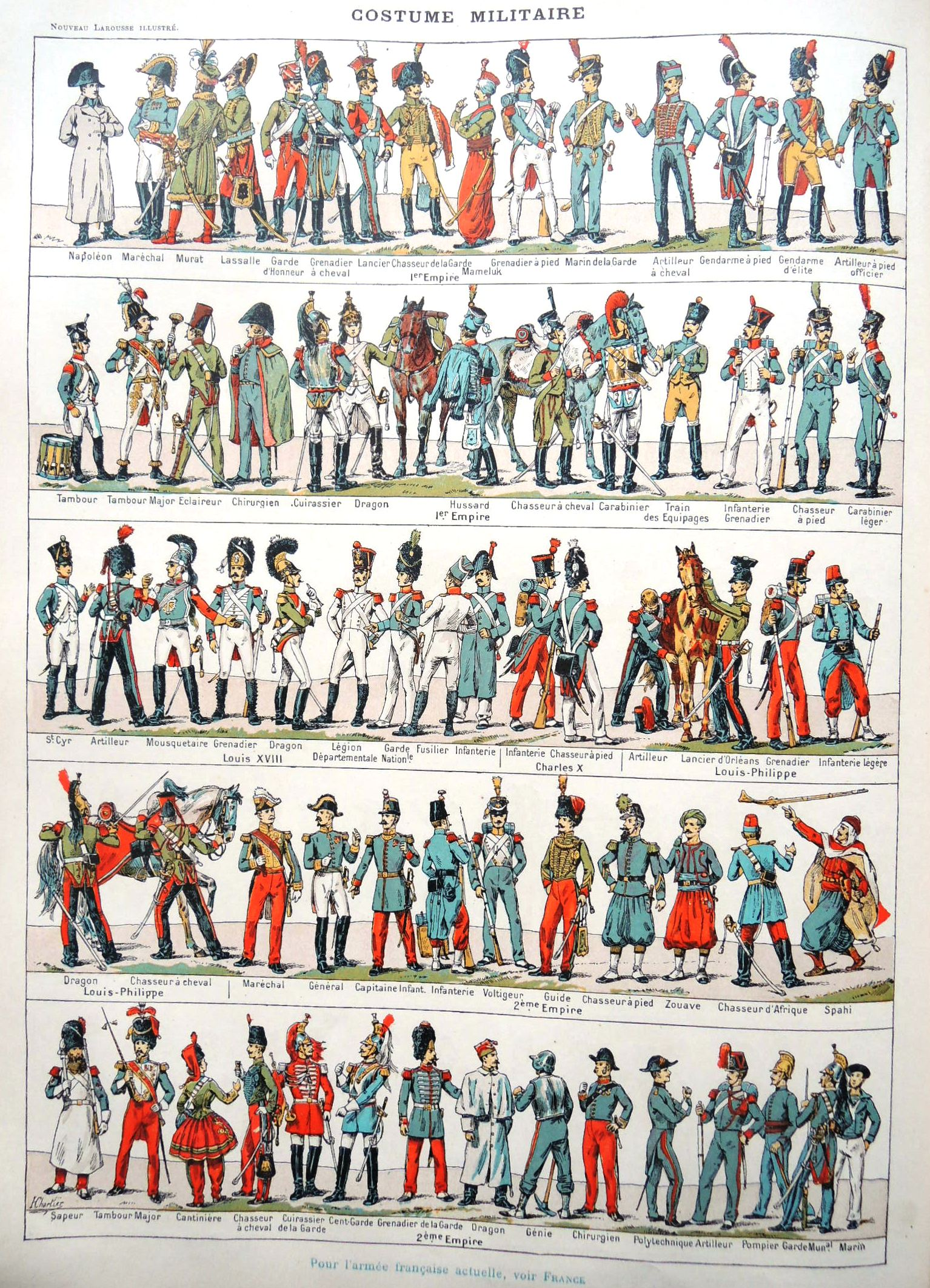 History of military clothing 2